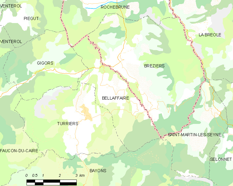 Map commune FR insee code 04026.png Légende